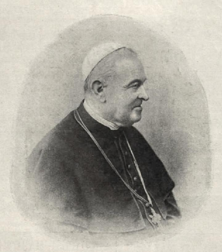 Gyula Meszlényi